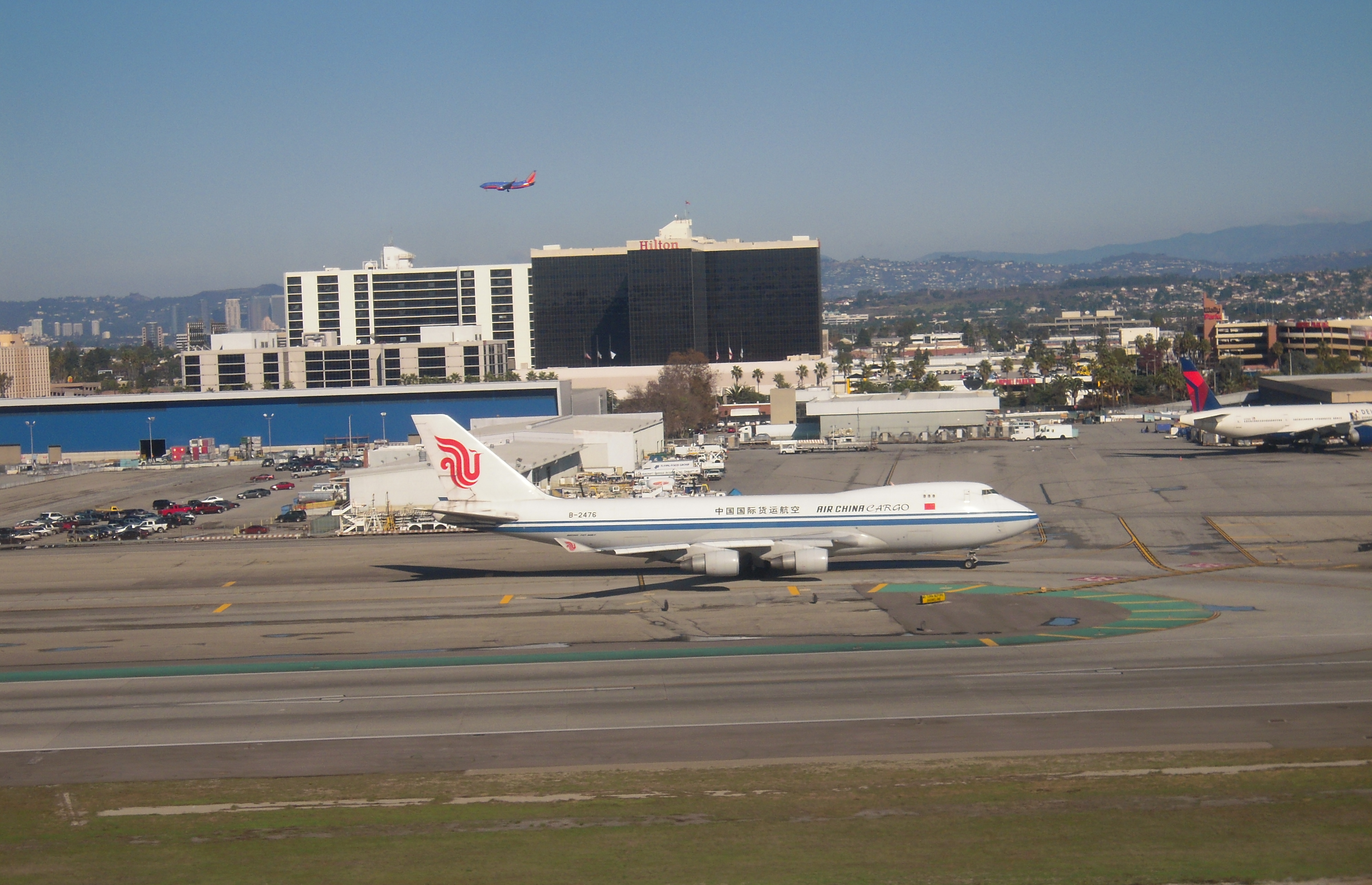 Air China Cargo B747 in Los Angeles International Airport